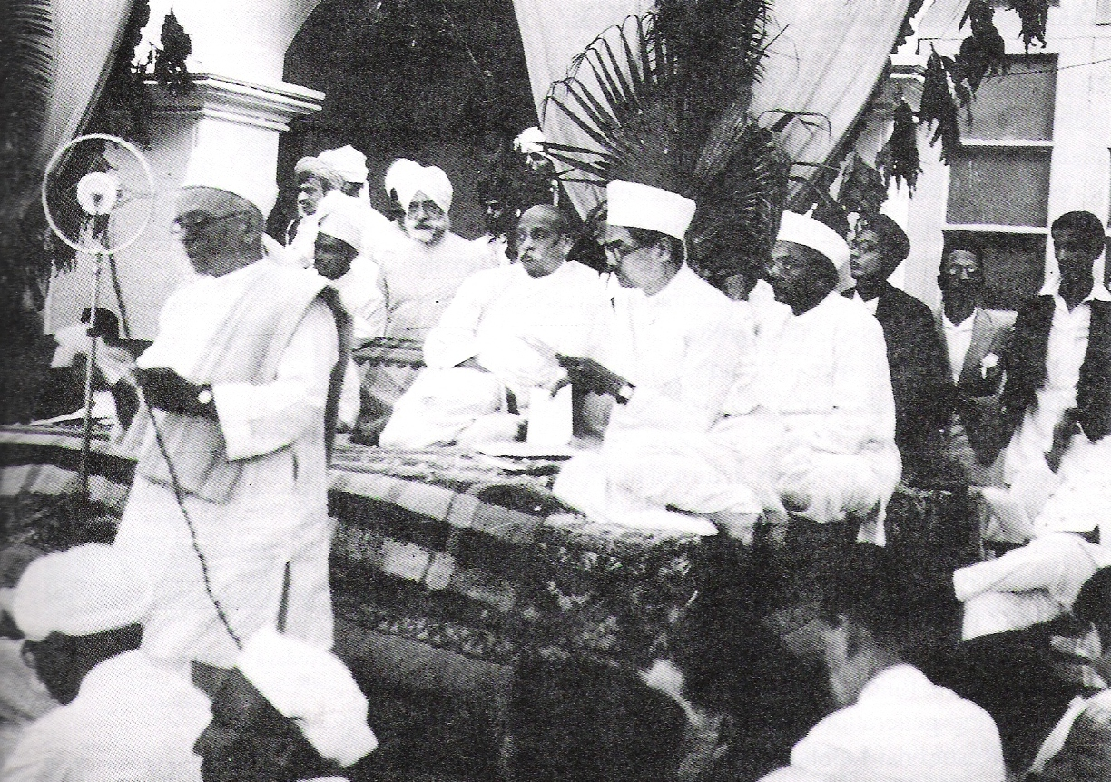 Balvantrai Thakore, Sardar Patel and Ganesh Mavlankar at a ceremony held in the municipality compound to celebrate centenary year of the Ahmedabad Municipality, 1935 Source: Scanned from The Ahmedabad Chronicle - Imprints of a Millennium Photographer: Pranlal Patel